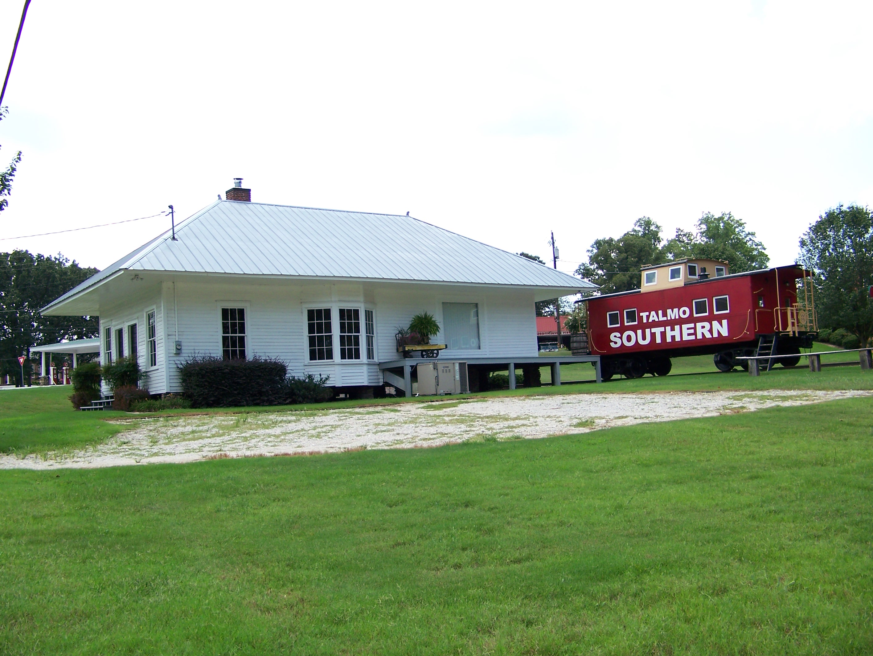 Talmo Historic District